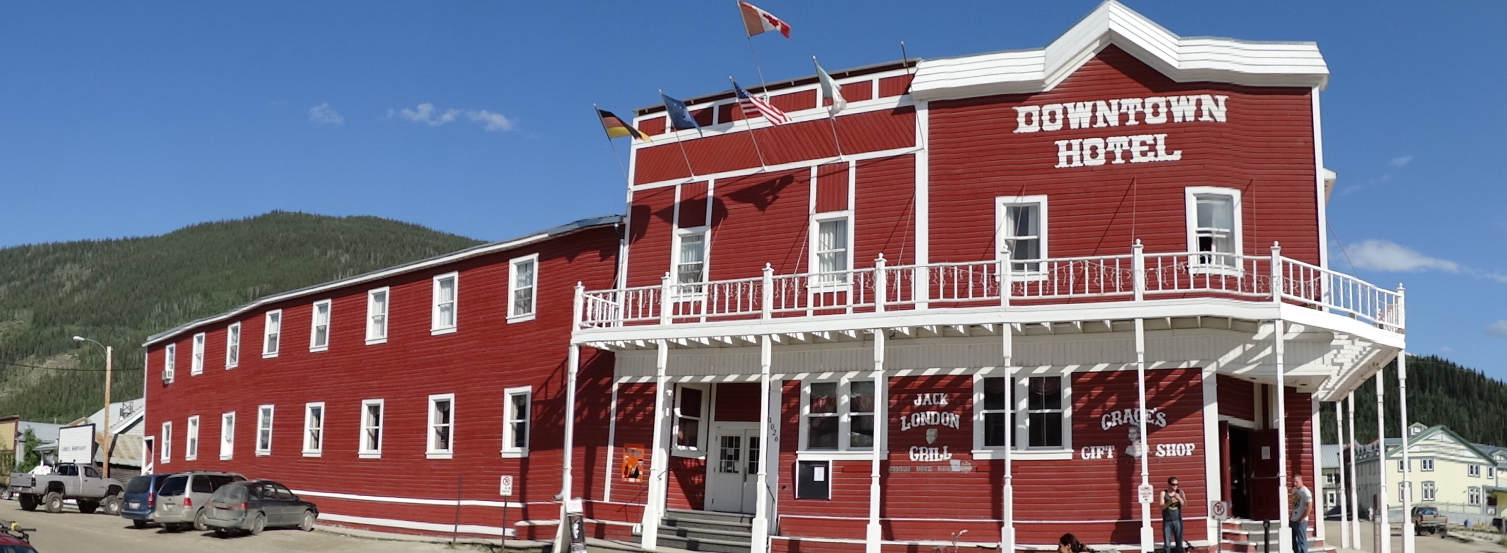 Panorama of Downtown Hotel - Dawson City - Yukon Territory - Canada